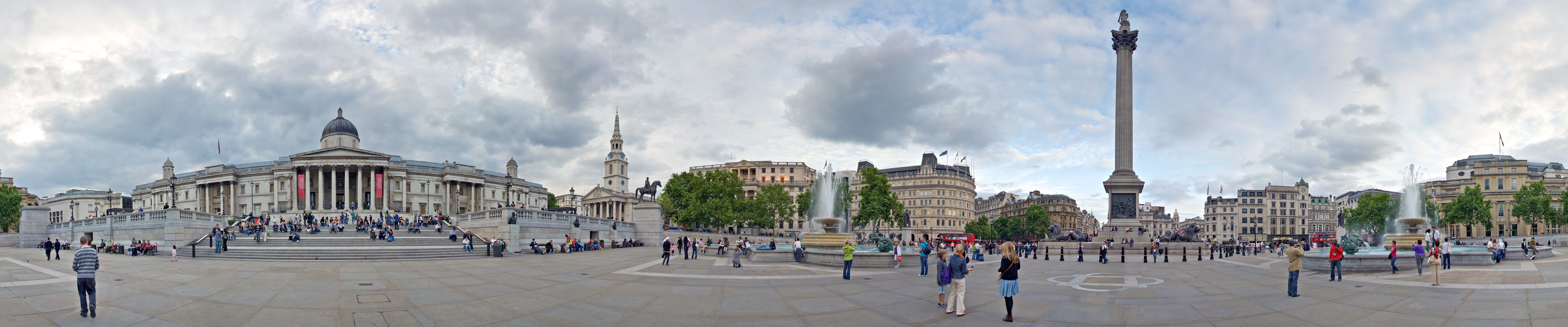 An 8 segment, 360 degree panoramic image taken with a Canon 5D and 17-40mm f/4L lens at 17mm and panoramic head on tripod. This is a cropped version of the one below